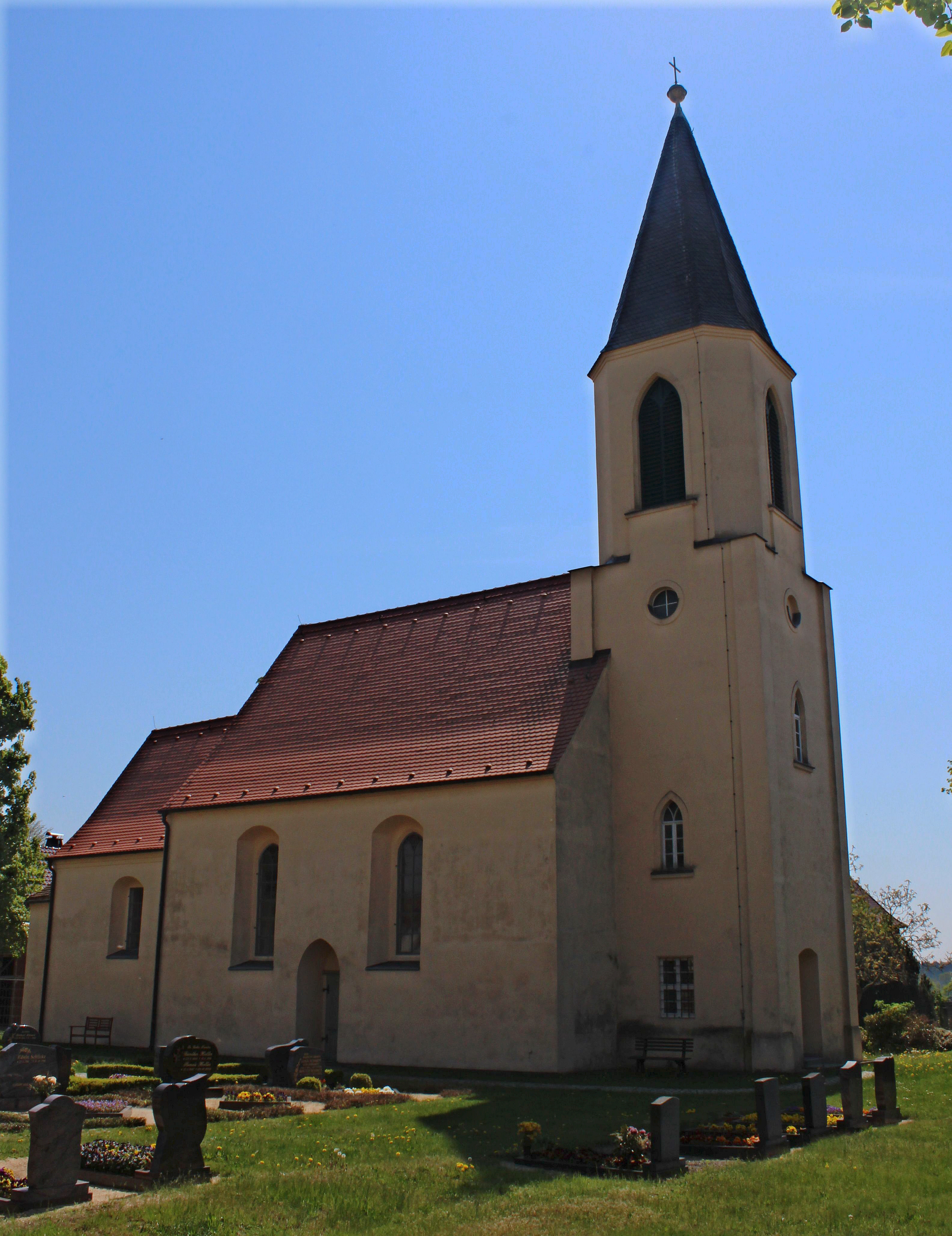 The village church of Strauch in Saxony. The Belltower was built in the year 1864.